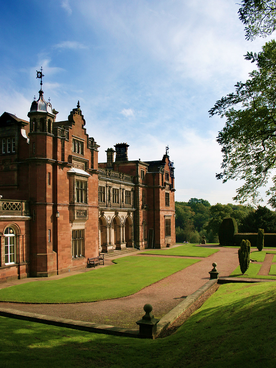 The South face of Keele Hall, former seat of the Sneyd family and administrative heart of Keele University, Staffordshire, UK. (960x1280 px, 446,201 bytes)